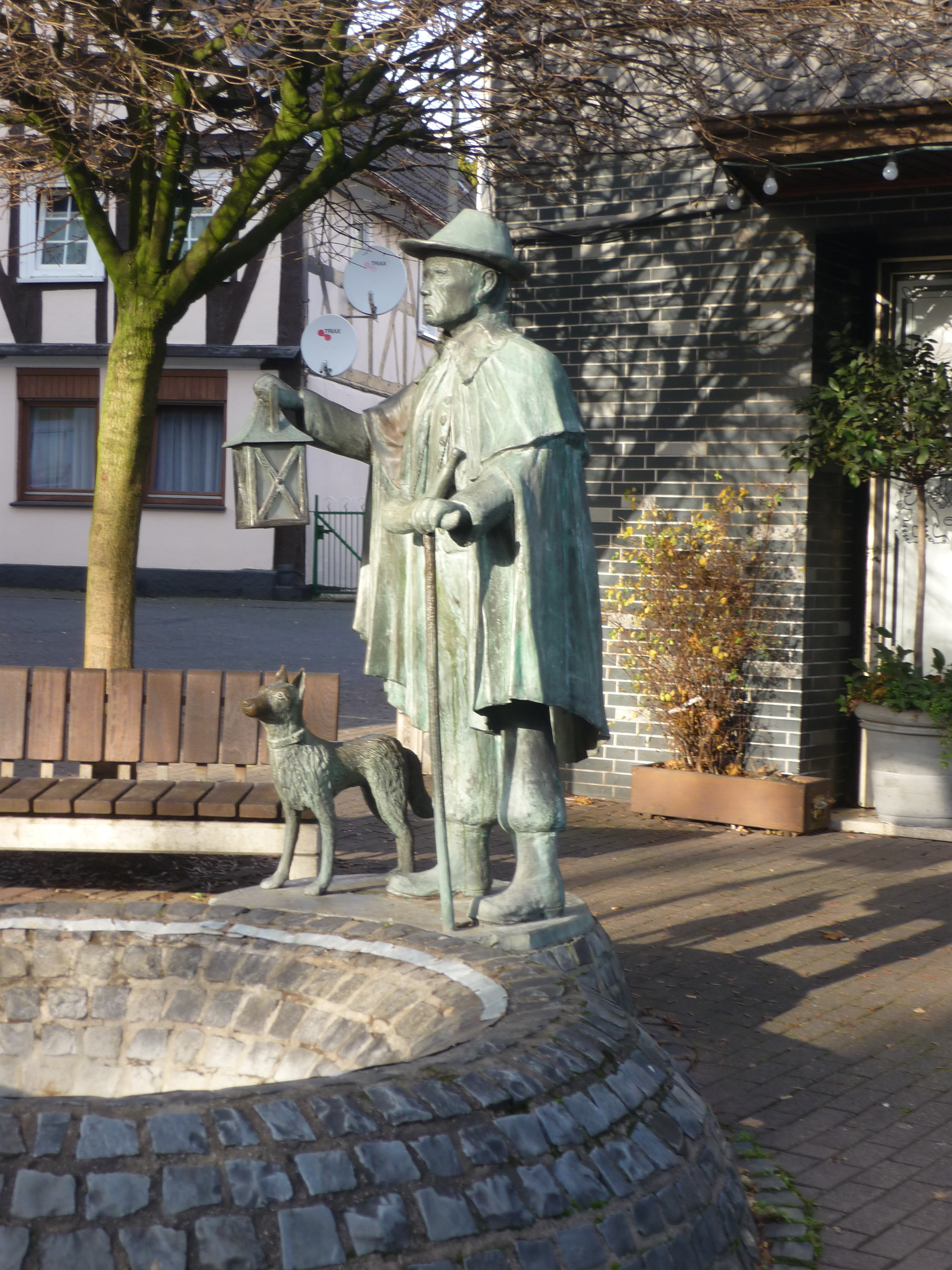 Scen at Hamm Sieg